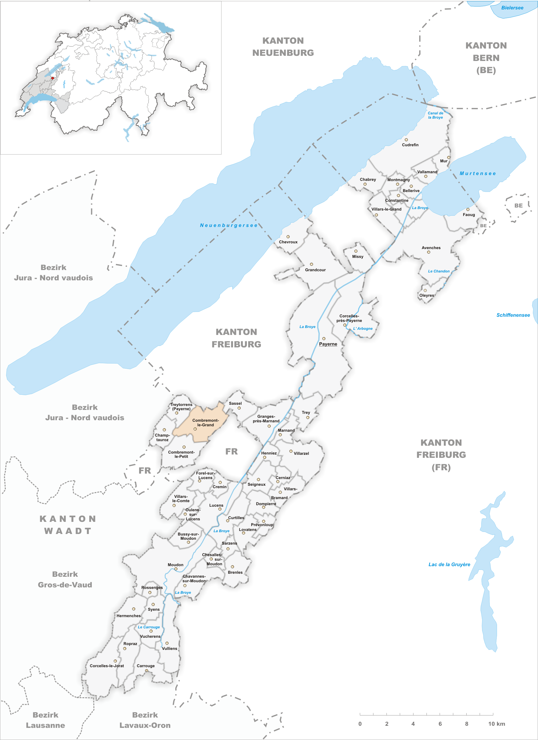 Municipality Combremont-le-Grand